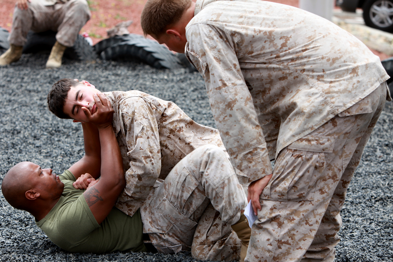 Marines from 3d Assault Amphibian Battalion receive instructions about the proper way to roll an opponent off themselves in a hand-to-hand fight during a Marine Corps Martial Arts Program at Camp Pendleton, June 15. Throughout the course the students practice and rehearse techniques to ensure they are capable of performing each move. MCMAP is designed to increase the Marines self-defense abilities at close ranges and to ensure Marines have the upper hand in close combat situations.